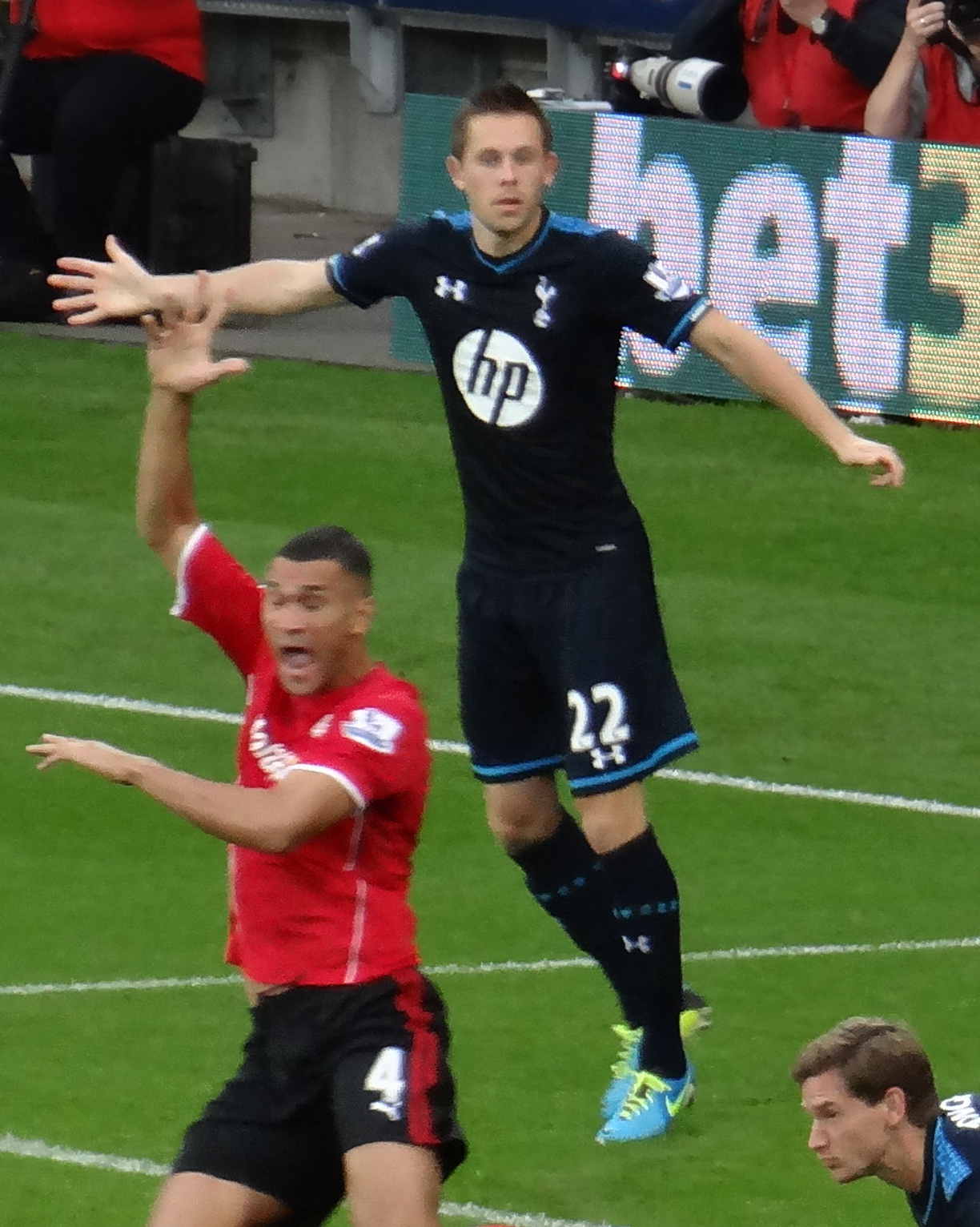 Icelandic football player of Tottenham Hotspur Gylfi Sigurðsson.